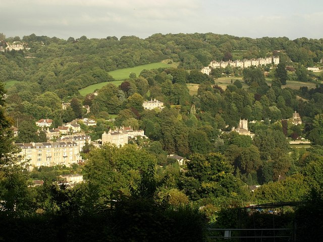 Widcombe from Beechen Cliff In the centre is the C18 Crowe Hall with an interesting garden. To its right is St Thomas a Becket's church, Widcombe, with the manor house directly in front of it. McAuley Buildings, at top right, are in ST7663, and at lower left is part of Widcombe Crescent, in ST7564.